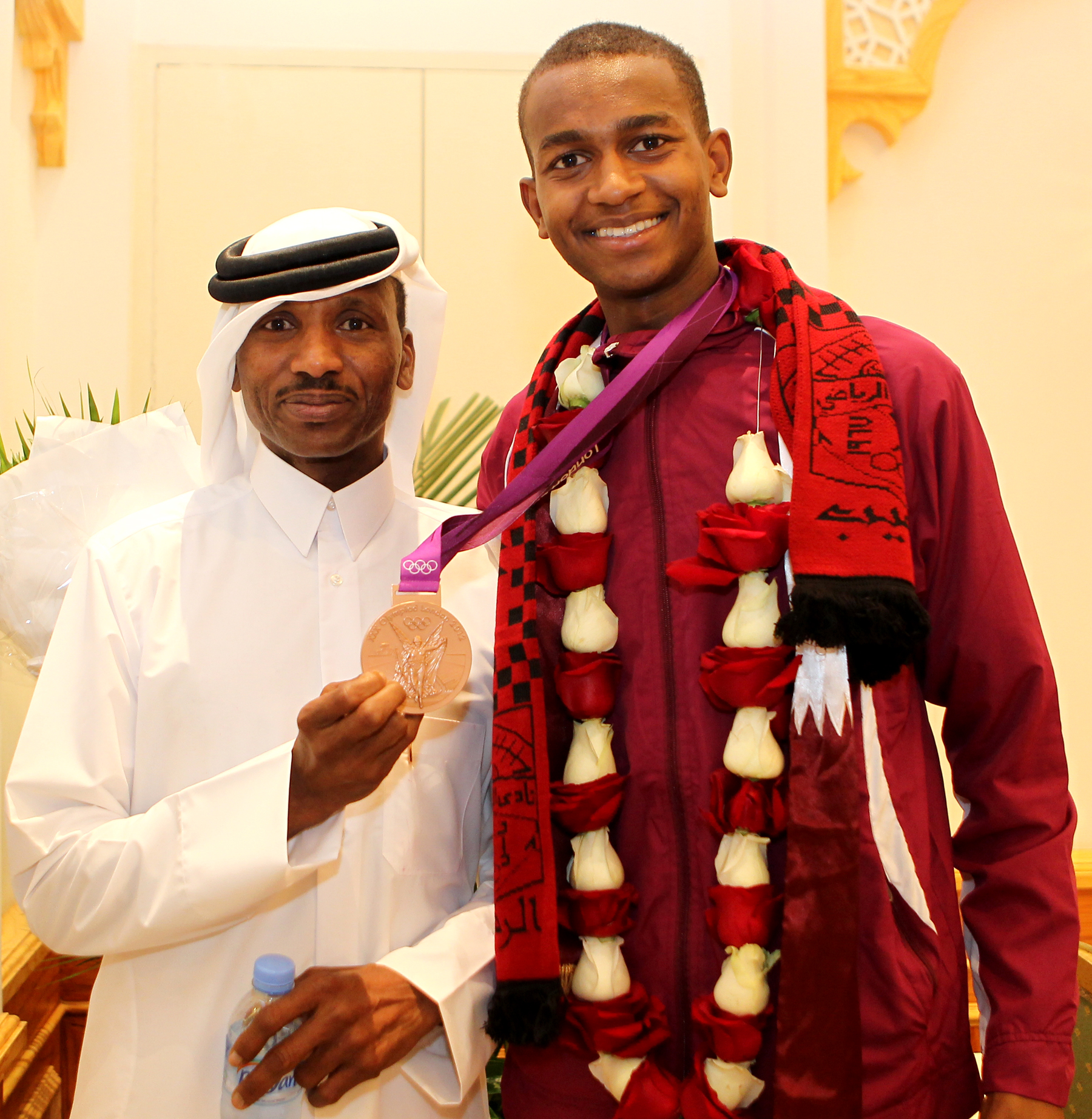 Qatari high jumper Motaz Essa Barsham, right, with his father Essa upon arrival from London at the Doha International Airport. Picture by Mohan